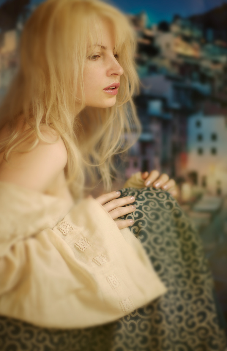 Adeyto by Adeyto Calendar (September) 2008